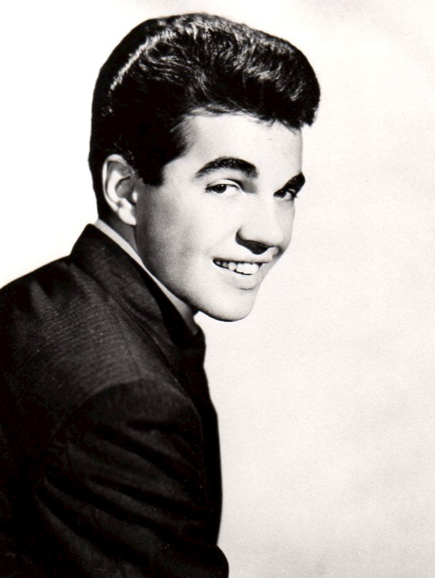 Photo of vocalist Joey Dee. Dee was the lead singer and founder of the group The Starliters. There are no copyright marks on the item, which can be seen at the link.